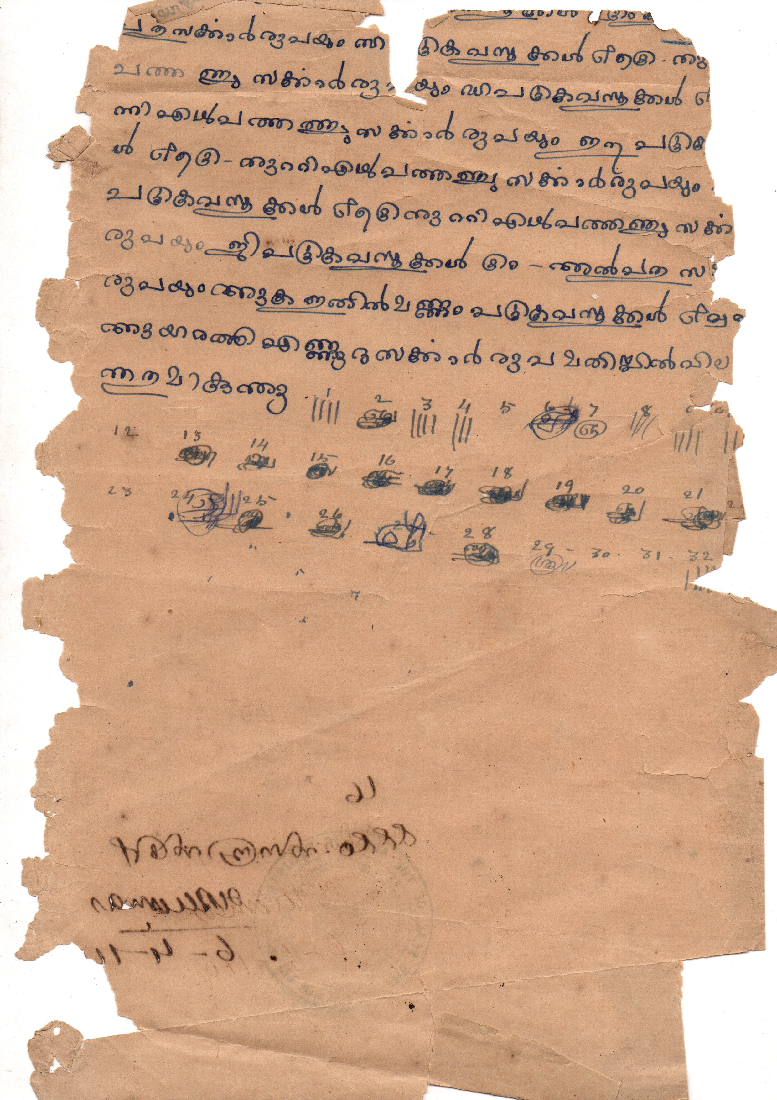 Signatures of all 33 share holders